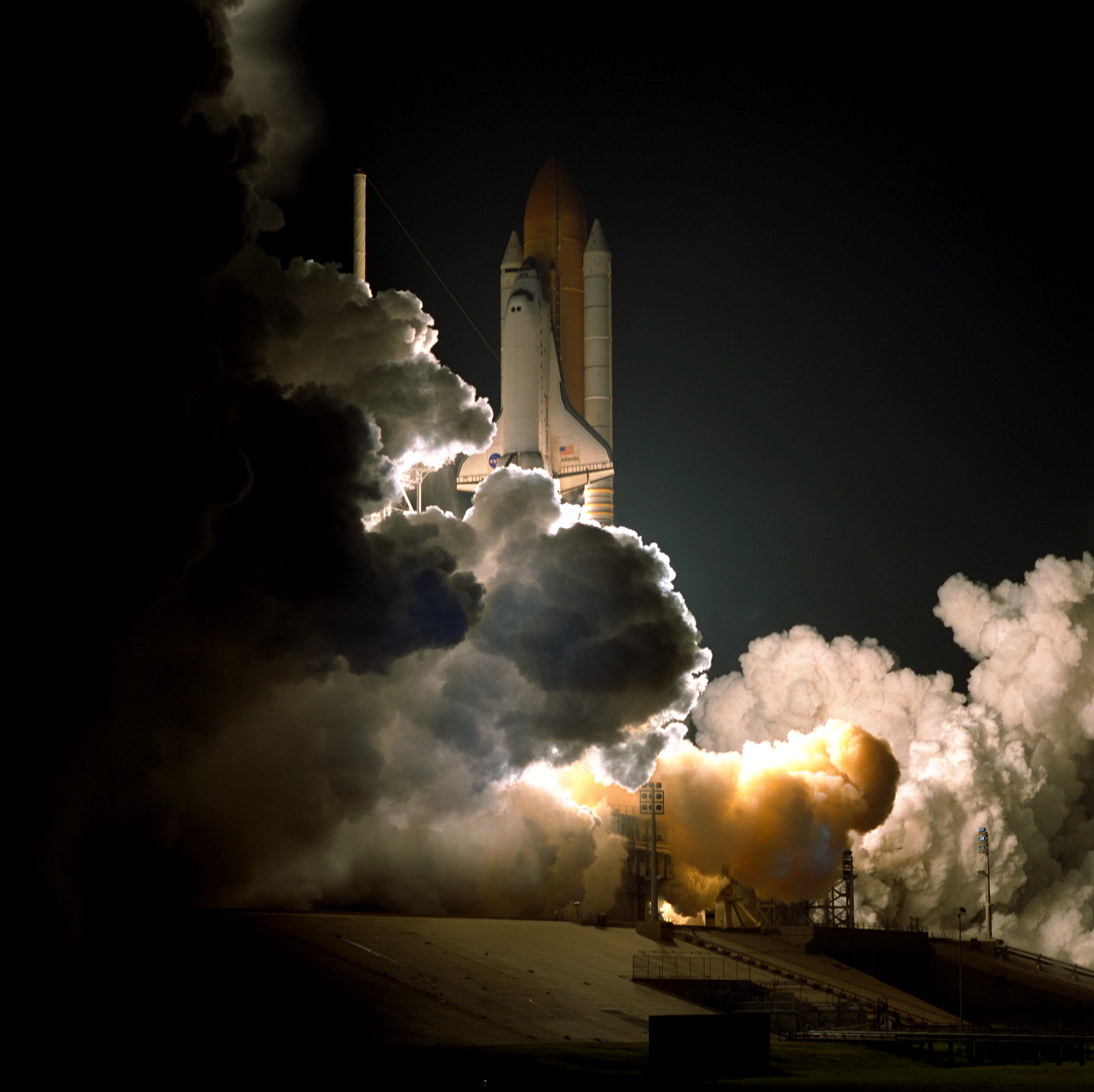 (July 12, 2001) Space Shuttle Atlantis' STS-104 mission launched from Kennedy Space Center on July 12, 2001 to install the Quest Joint Airlock to the ISS. The Shuttle docked with the ISS on July 13 and performed maintenance to the station in addition to installing the airlock. The crew returned home on July 24, 2001. Image # : STS104-S-018